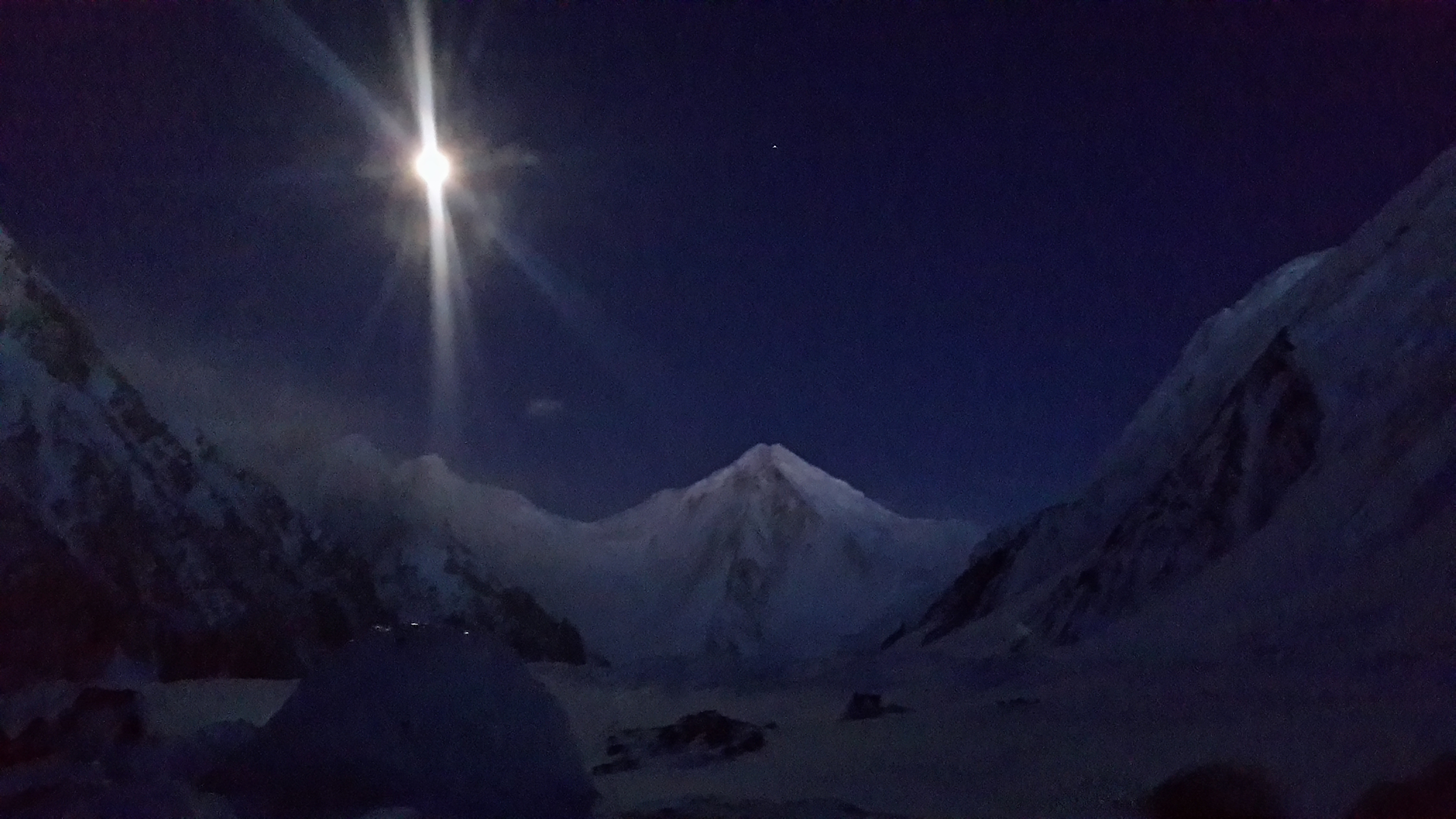 Sia Kangri in Karakorum at night. Slopes of Baltoro Kangri on the right, slopes of Gasherbrum I (aka Hidden Peak) on the left.